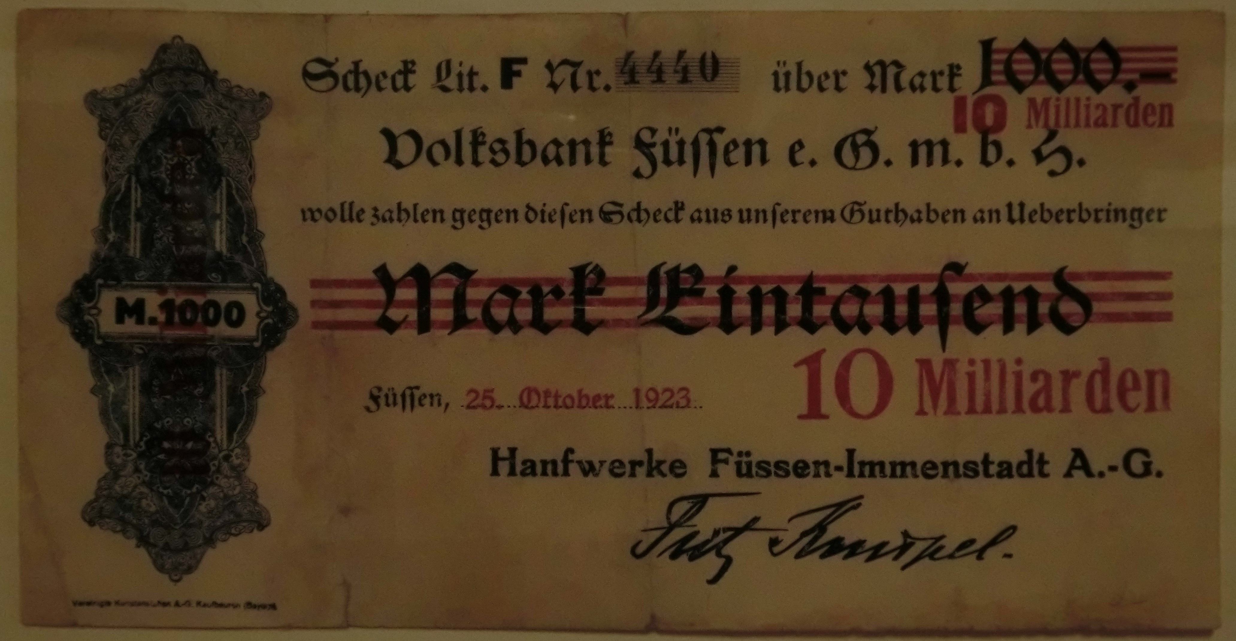 Germany - Bavaria - district Ostallgäu - Füssen: 1000-Mark-cheque with overprint "10 Milliarden Mark"